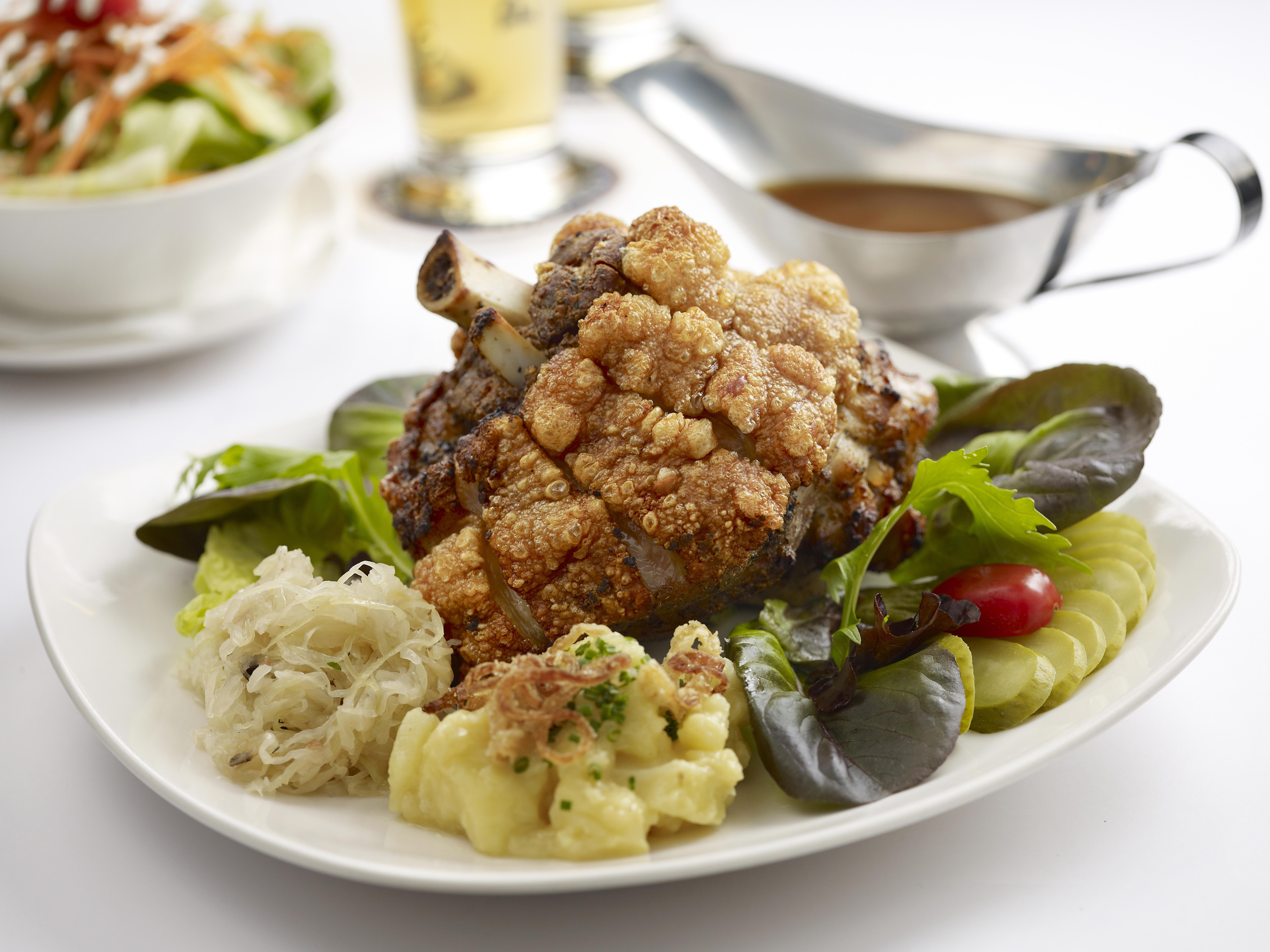 The Pork Knuckle is marinated and slow roasted over three days.